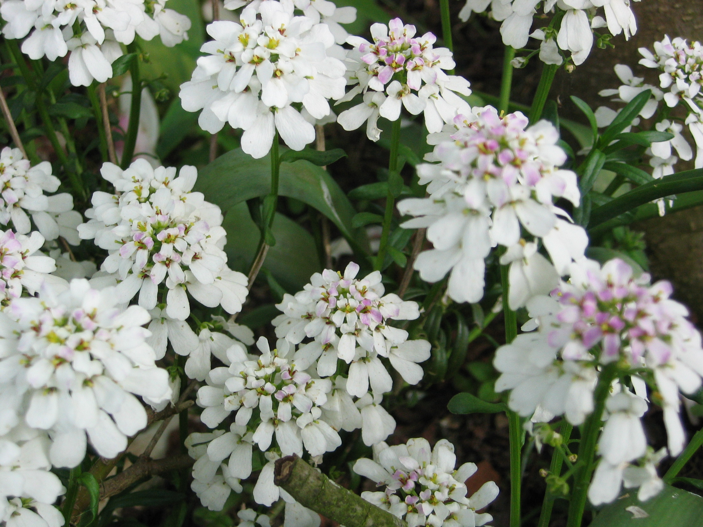 Iberis sempervirens (perennial candytuft). Photo by Heron2 (Heron on en.wikipedia).